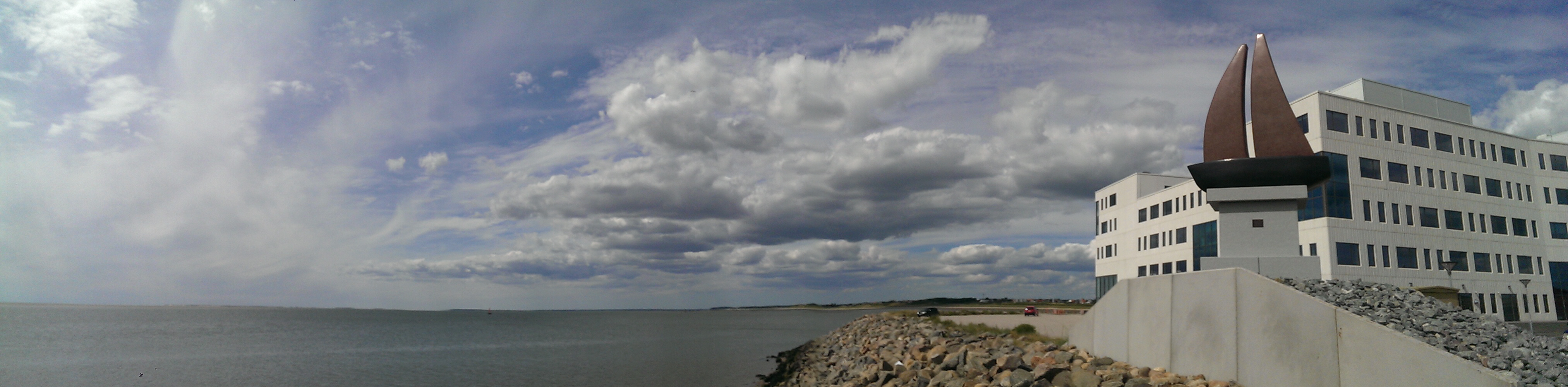 Panorama view of Ho Bugt from Tage Sørensens Plads on the harbour of Esbjerg. Semco Maritime's headquarter and art work Esbjerg Skibet is visible in the foreground.